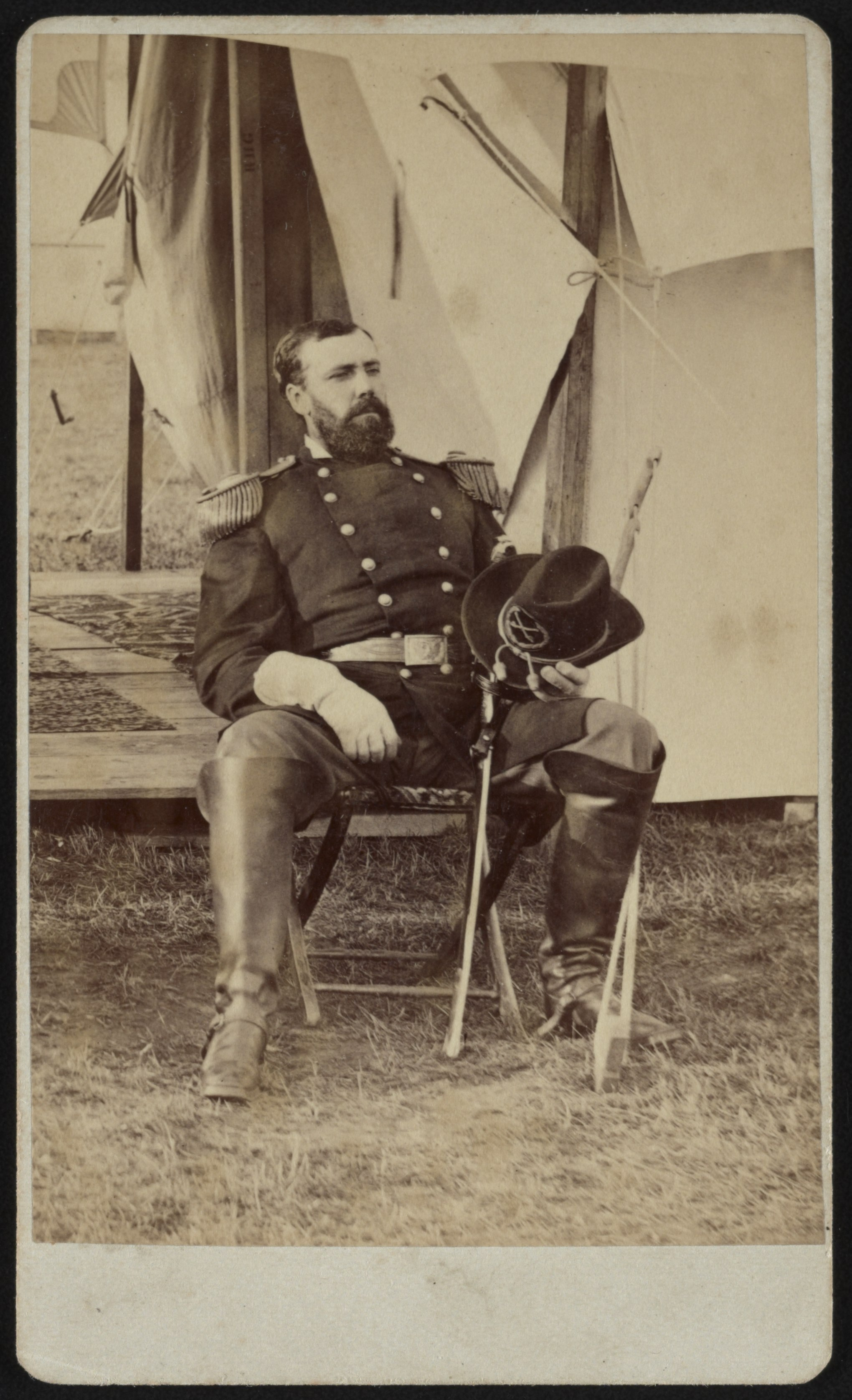 Title: Major General Eugene Asa Carr of General Staff U.S. Volunteers Infantry Regiment, seated by a camp tent in uniform with sword Abstract/medium: 1 photograph : albumen print on card mount ; mount 11 x 7 cm (carte de visite format)